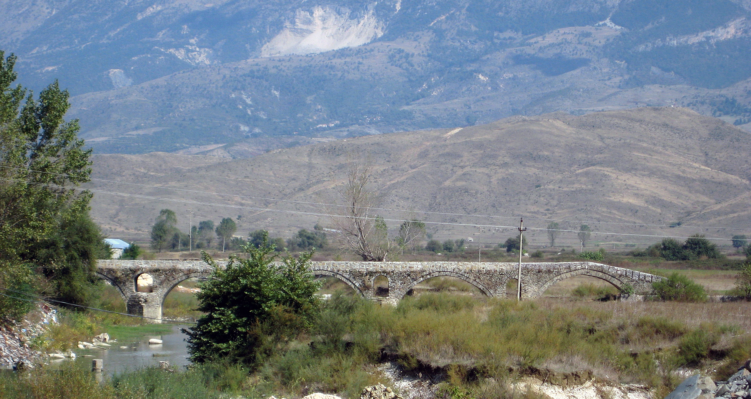 Ura e Kordhocës: ottoman stone Bridge crossing River Drino in Southern Albania near Gjirokastër